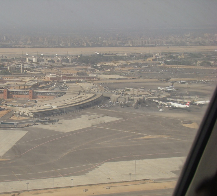 Terminal 2 in cairo international airport